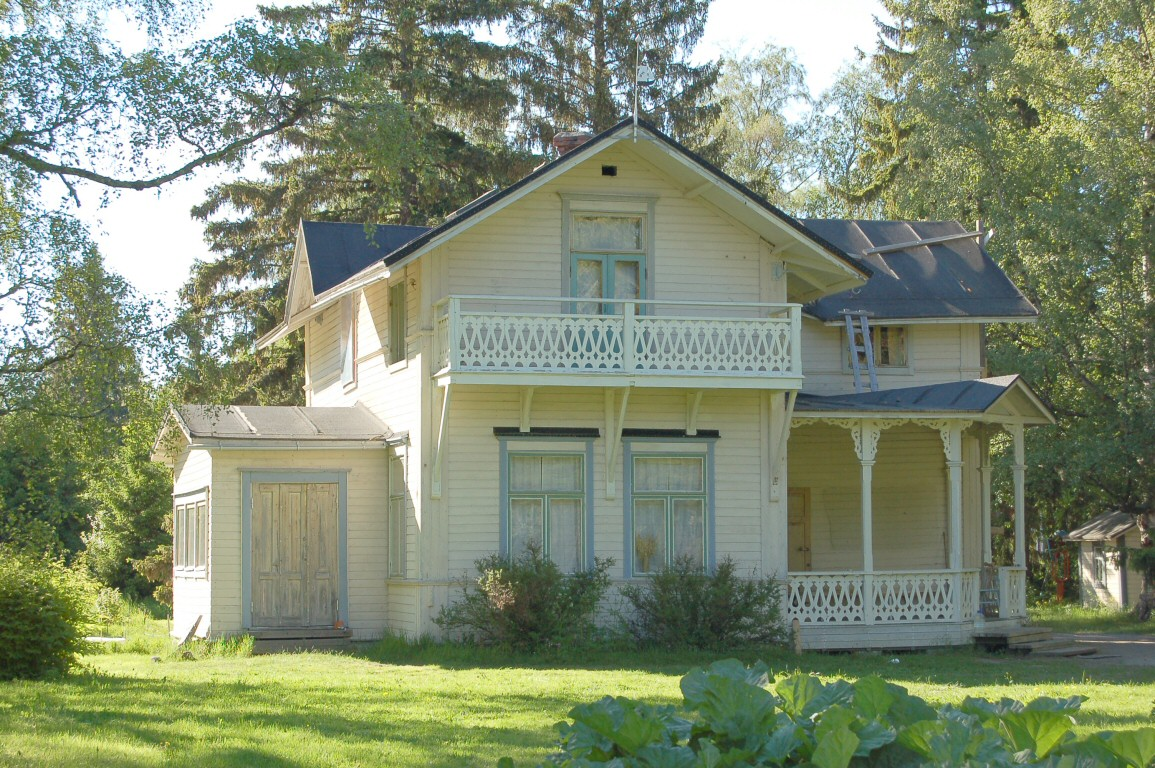 Villa Pukkila in Hietasaari, Oulu.